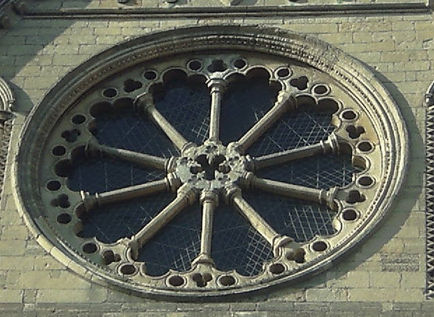 Rose window of Beverley Minster, Beverley, East Riding of Yorkshire, England.